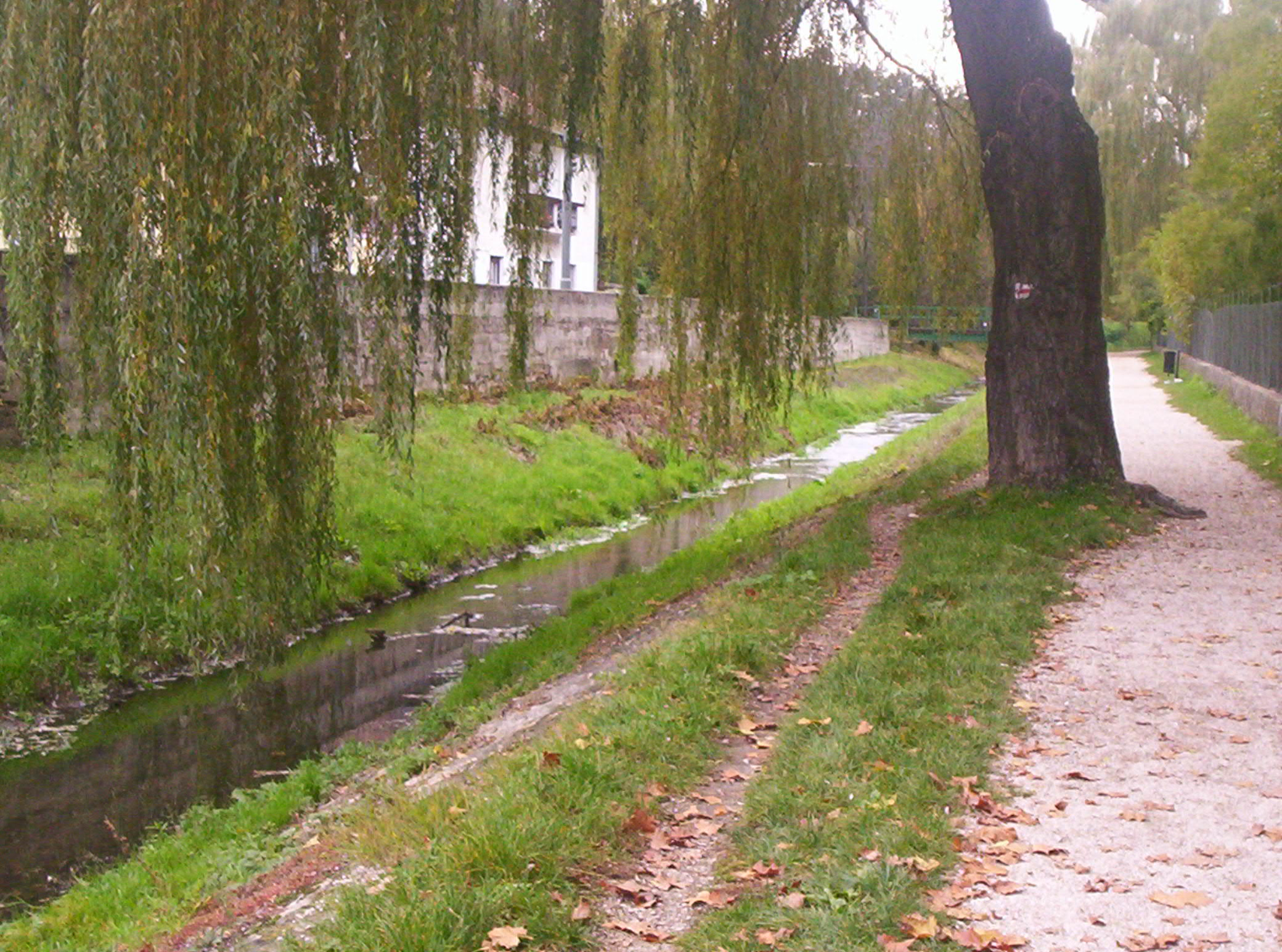 Description: Stream Séd in Veszprém